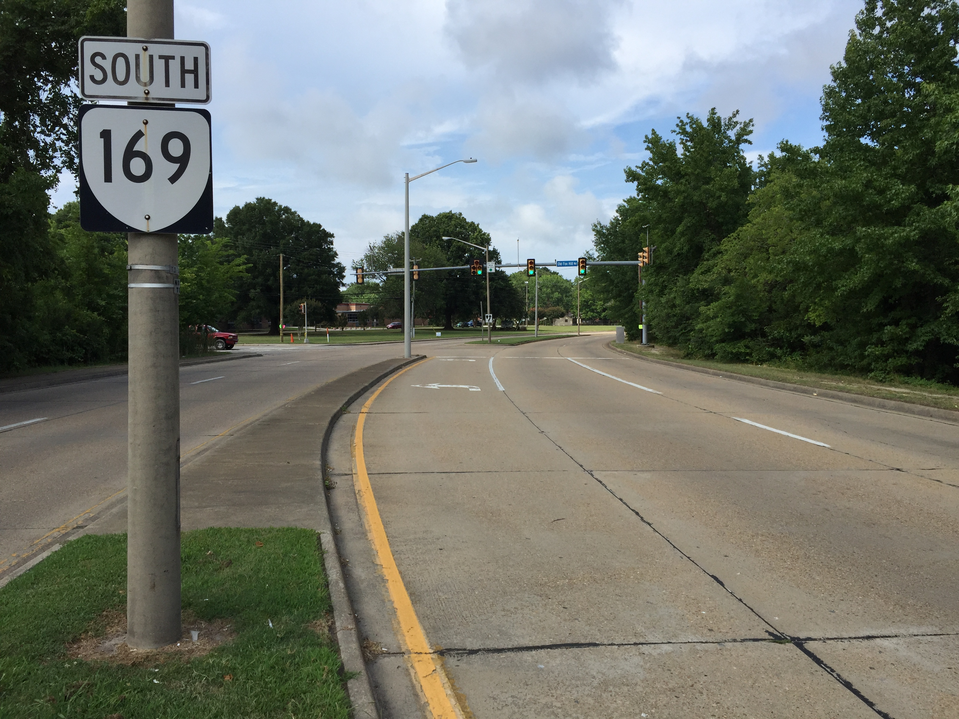 View south along Virginia State Route 169 (Fox Hill Road) at Old Fox Hill Road in Hampton, Virginia